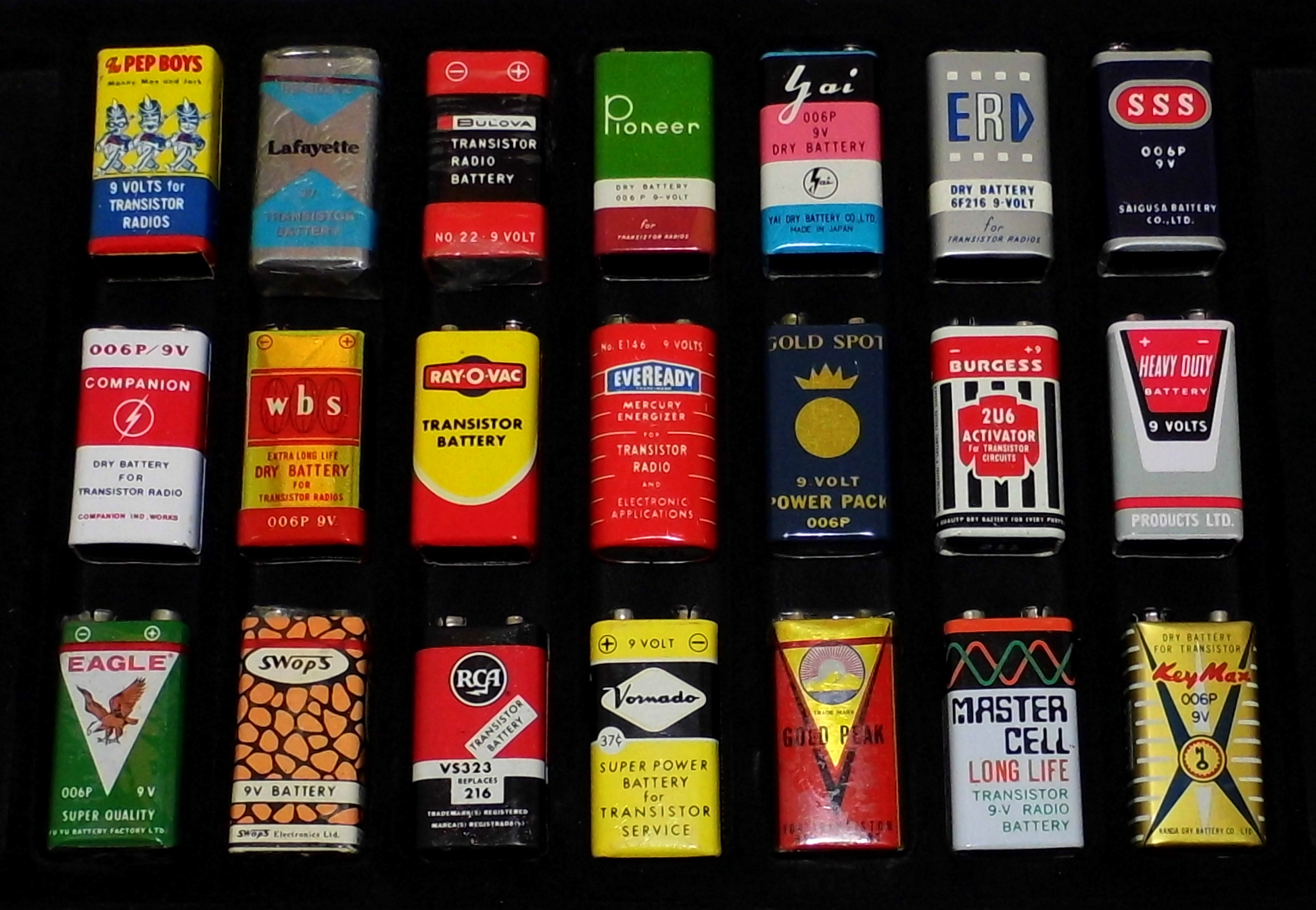 Vintage 9 Volt Transistor Radio Batteries, Made In Japan, USA, Great Britain, Taiwan And Hong Kong